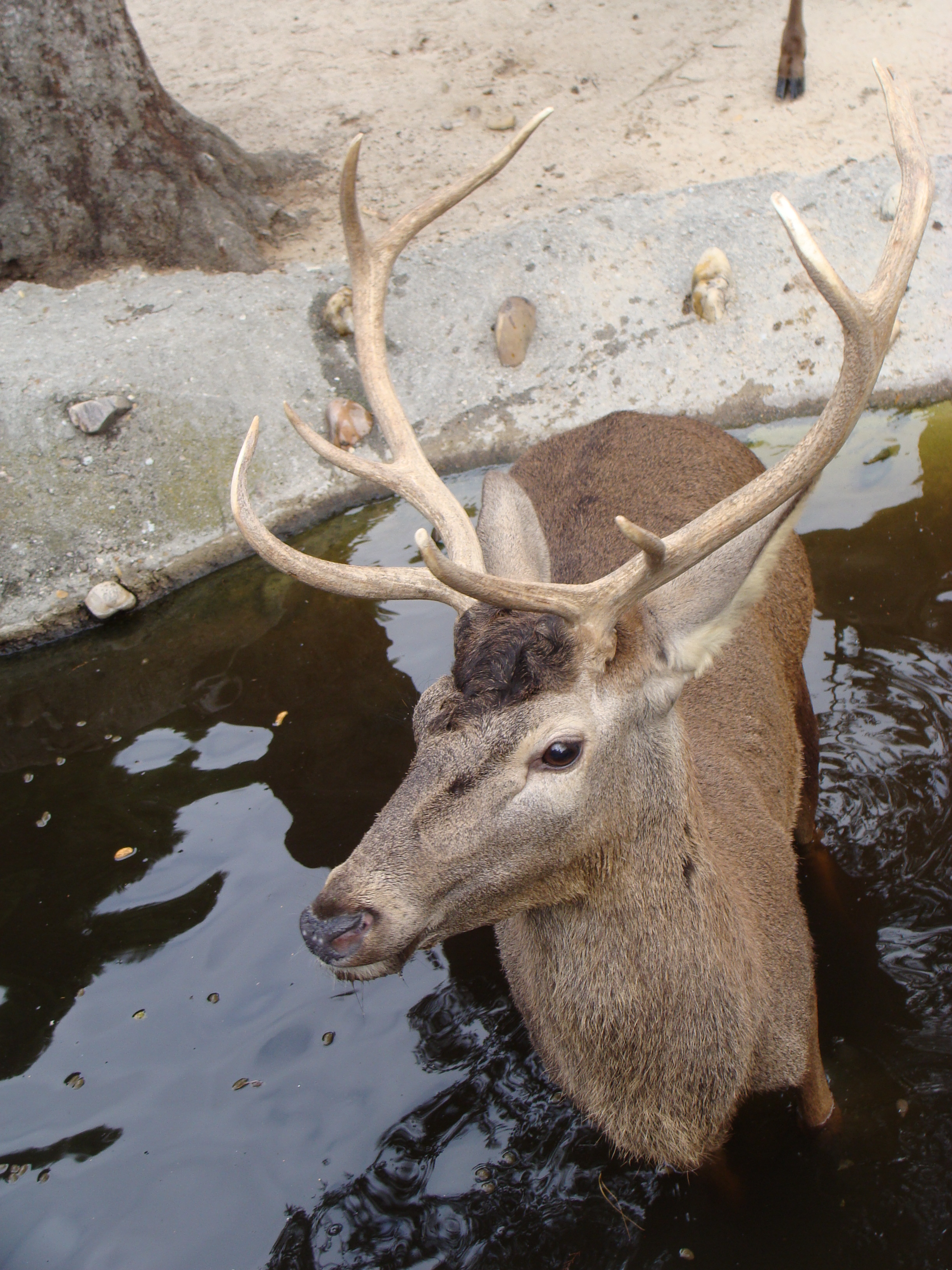 Cervus elaphus hispanicus (Spanish deer) in the Zoo de Madrid, Spain.